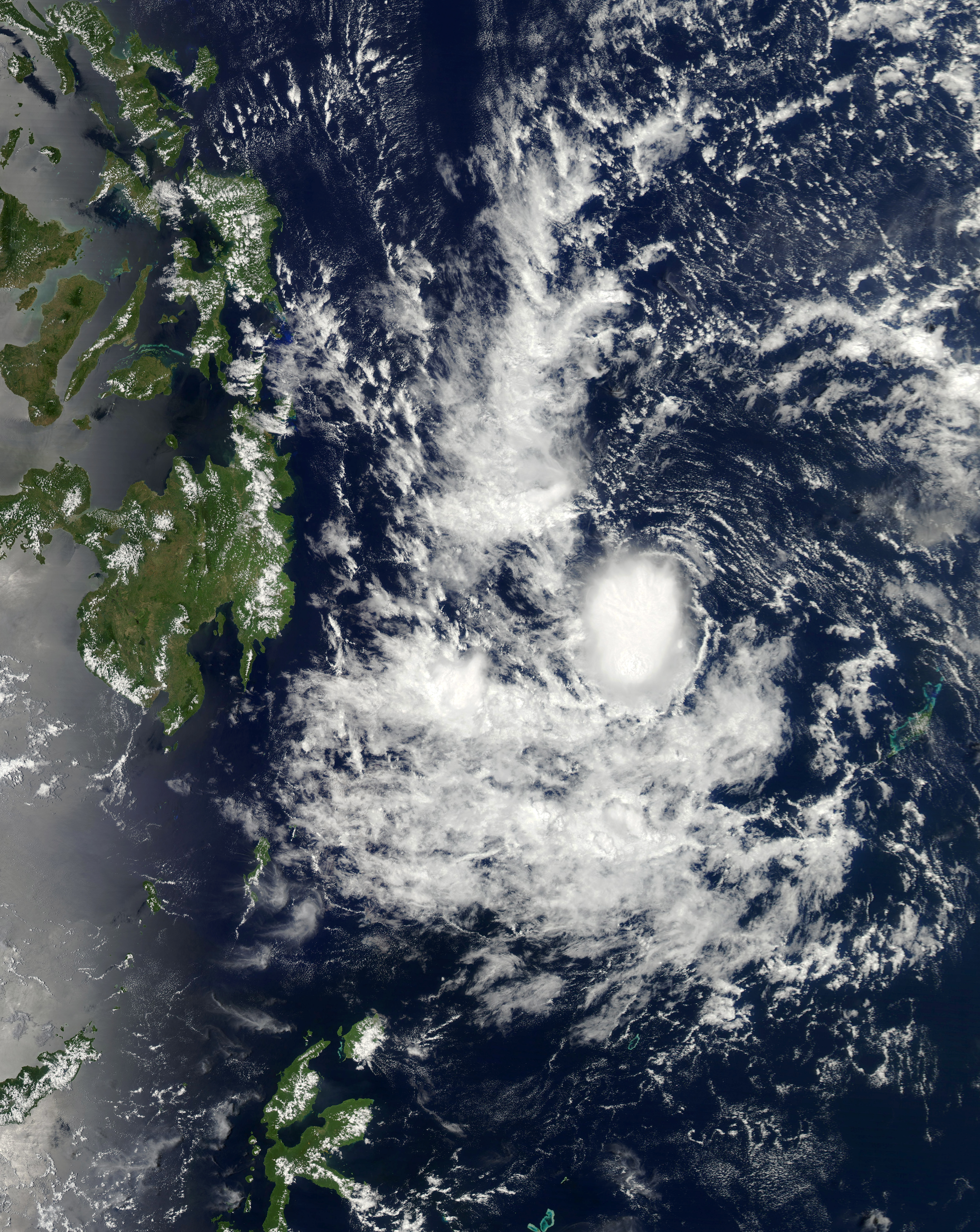 JMA Tropical Depression Four on March 20, 2013